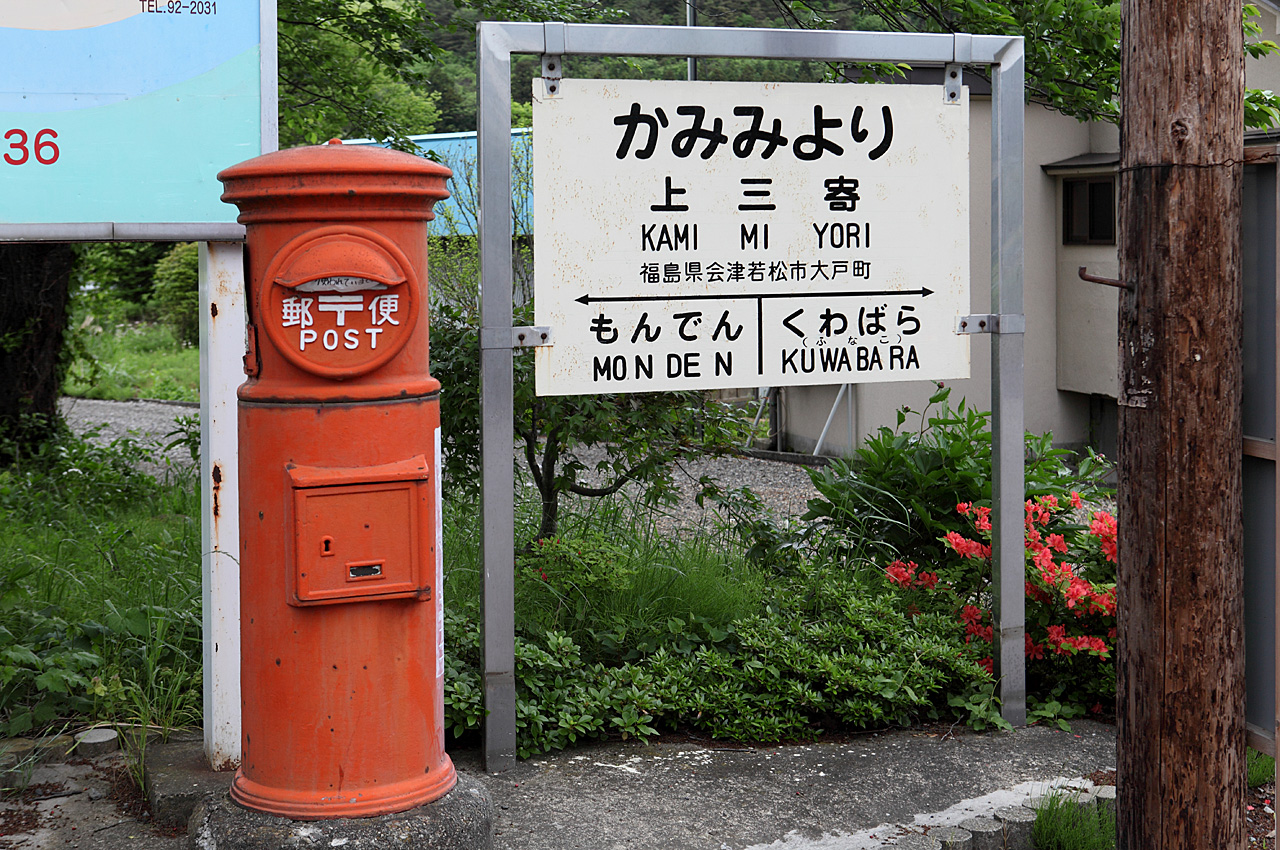 Former station sign of Japanese National Railways Aizu Line era in front of Aizu Railway Ashinomaki-Onsen Station